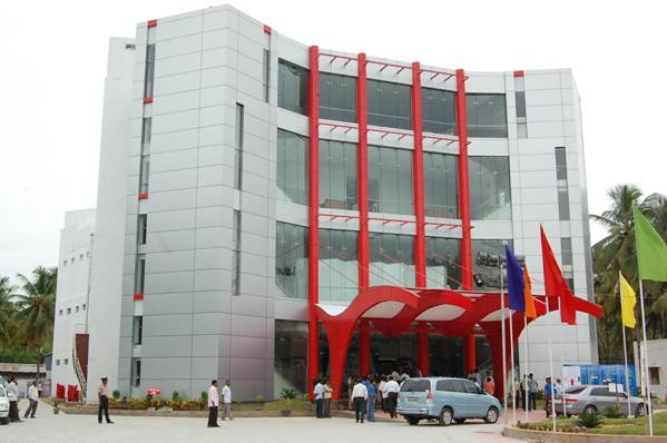 Ambur Trade Center is built for promoting Leather and Allied business in the zone.